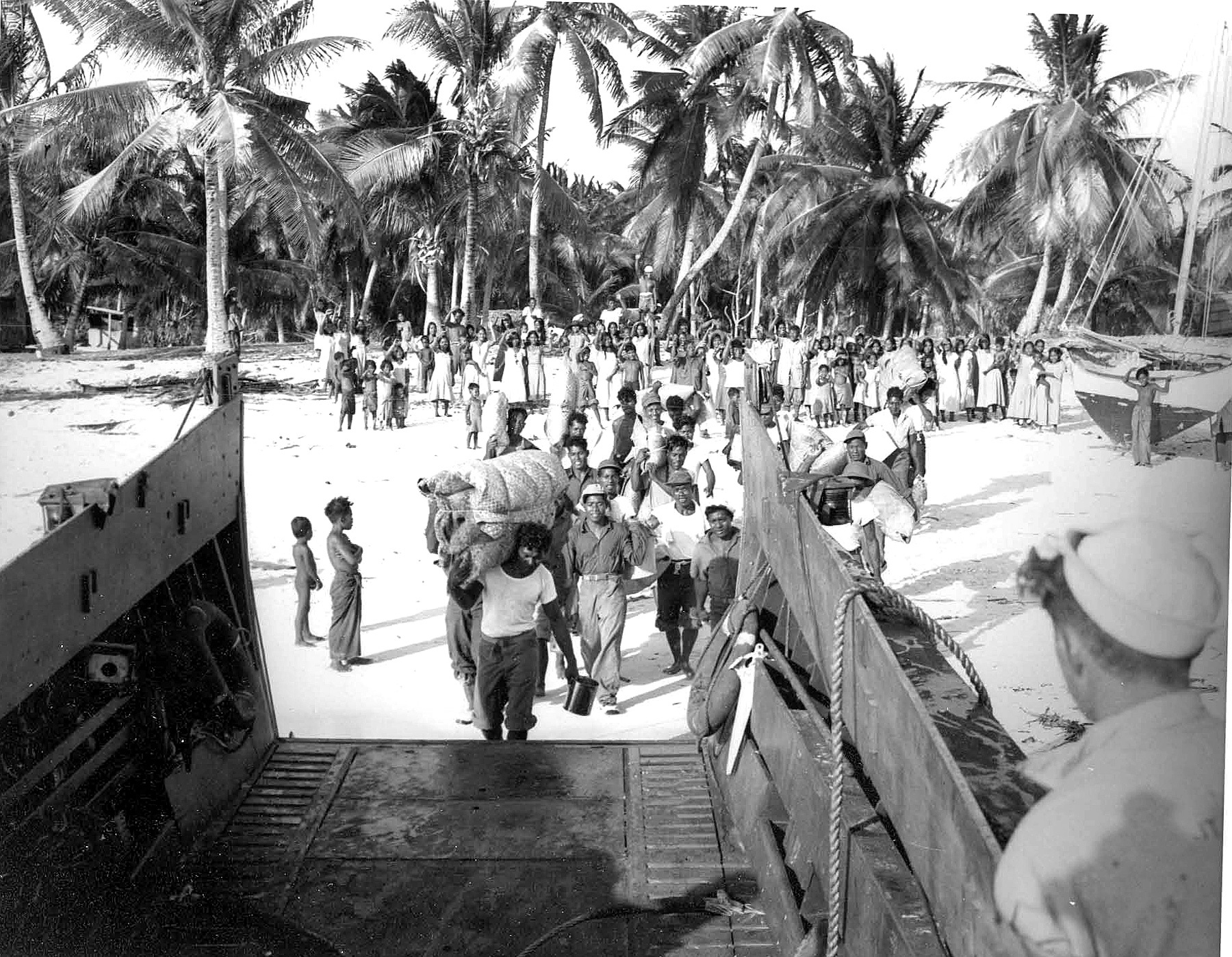 Bikini Islanders board LST 1108 as they depart from Bikini Atoll in March 1948